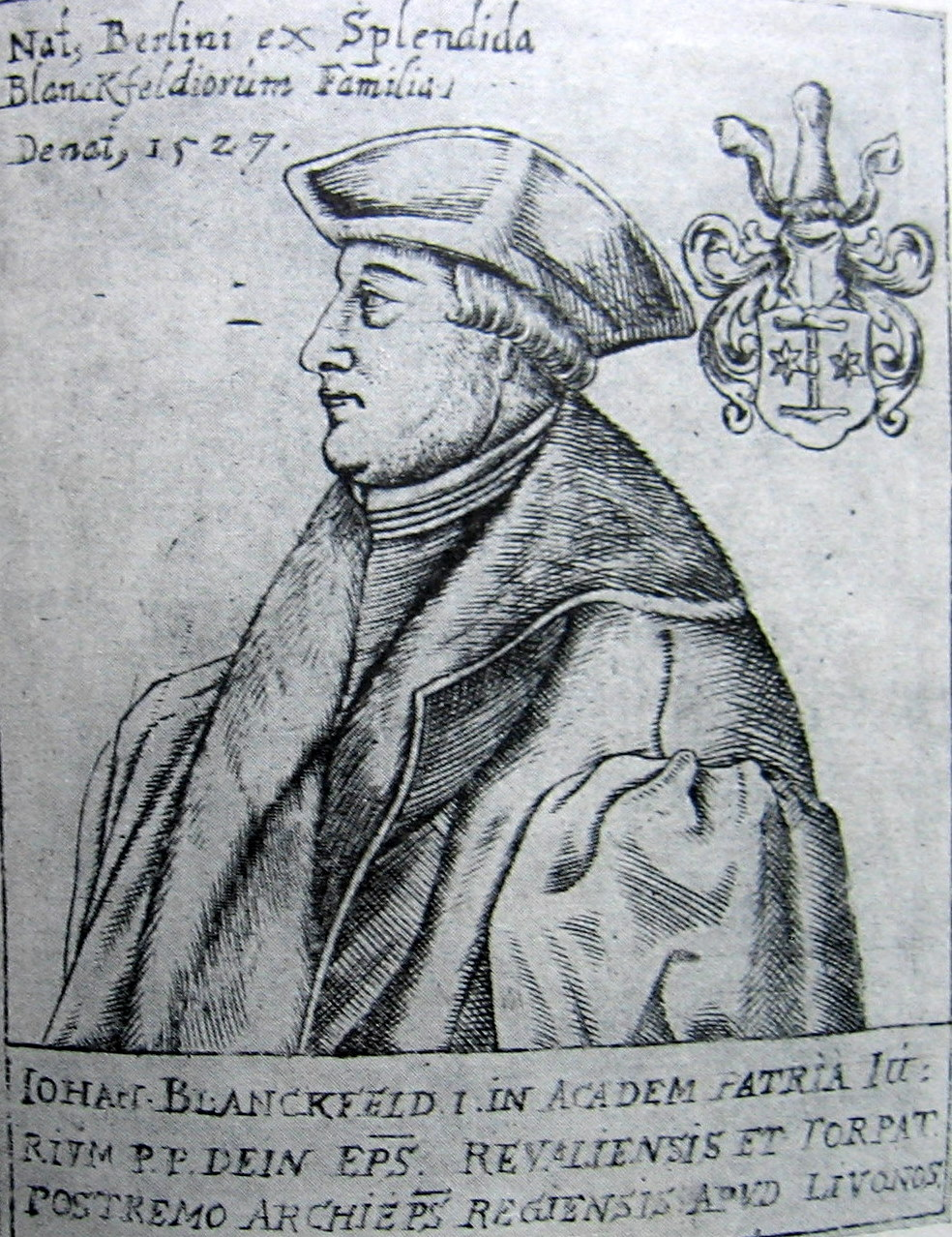 Archbishop Johann Blankenfeld of Riga.